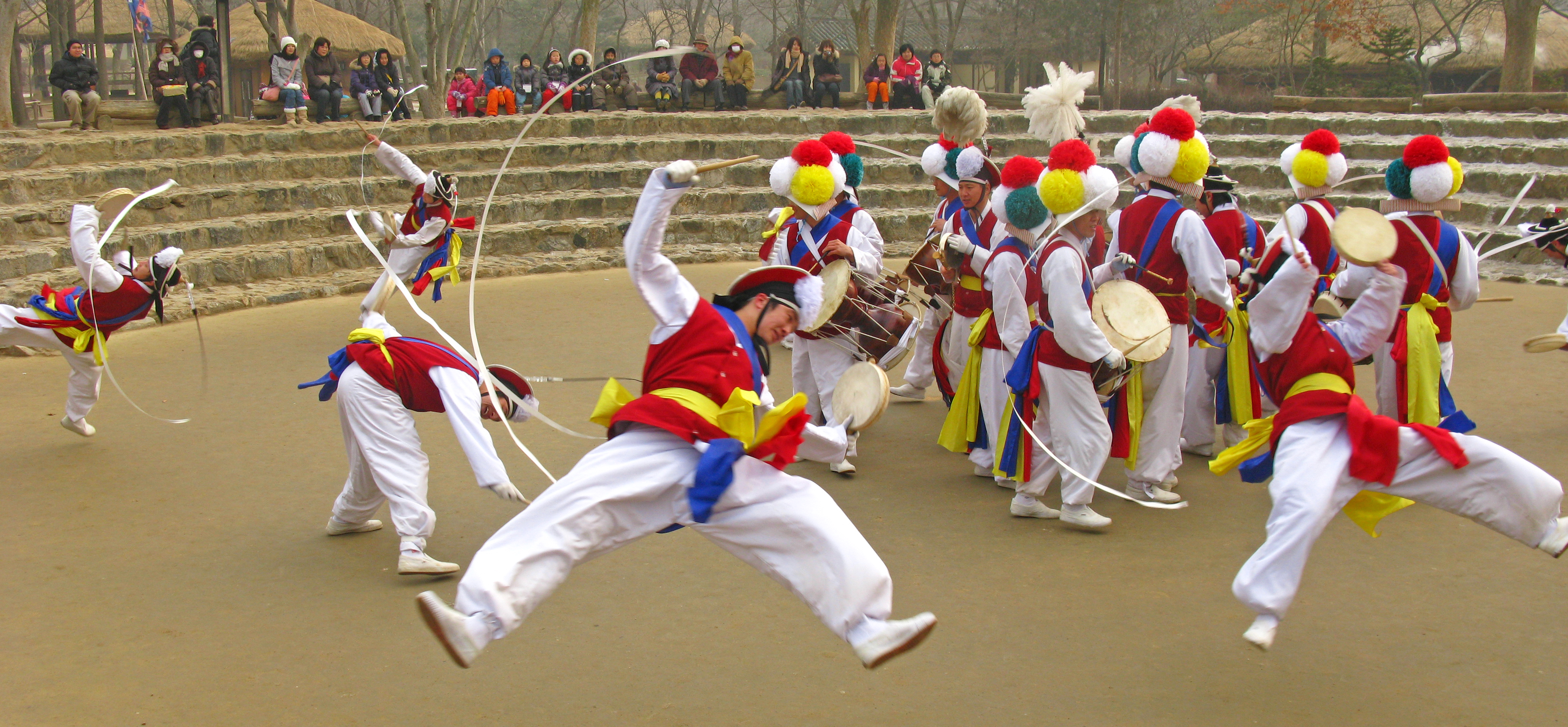 Pungmul dancers in South Korea